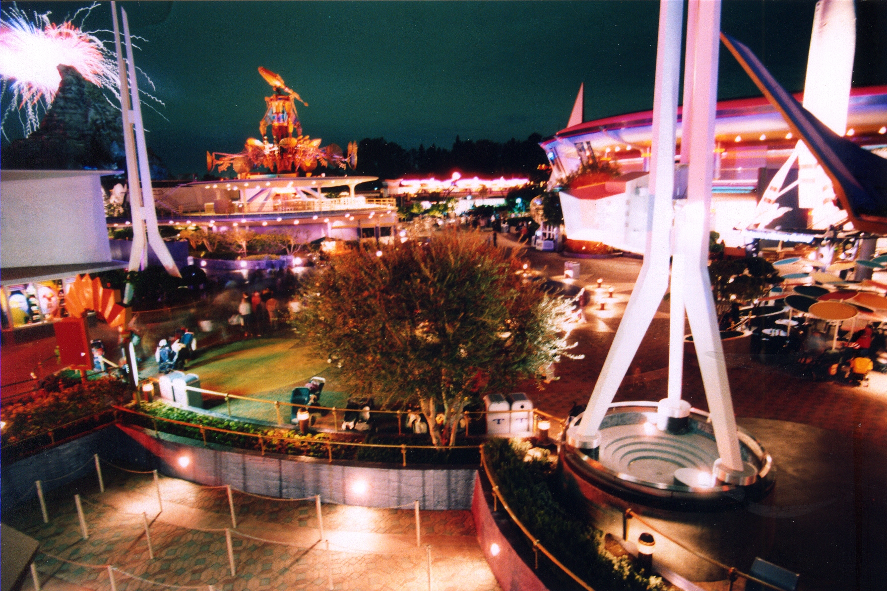 Tomorrowland from Space Mountain Cueue